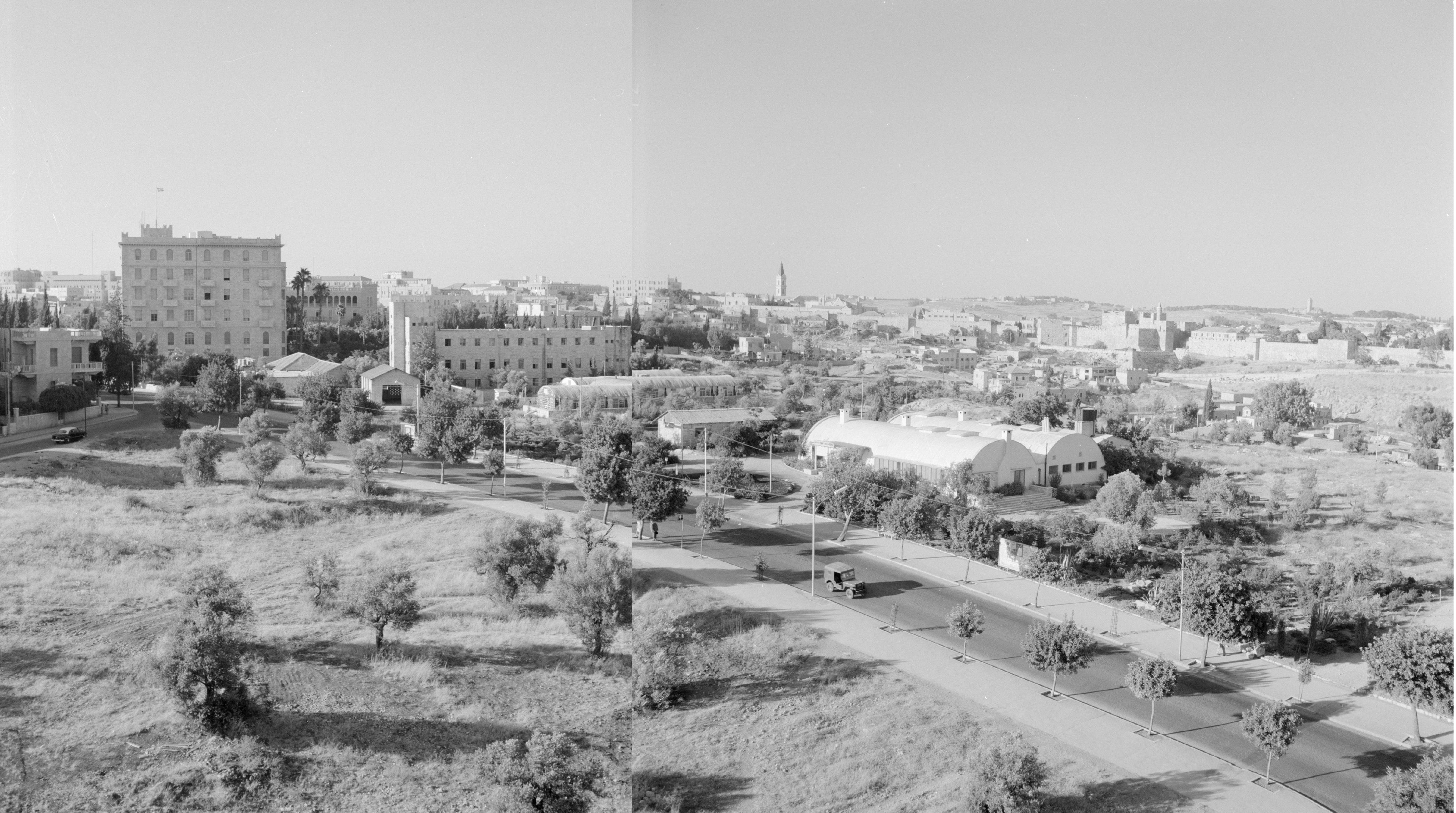 A historical image of King David Street 1964